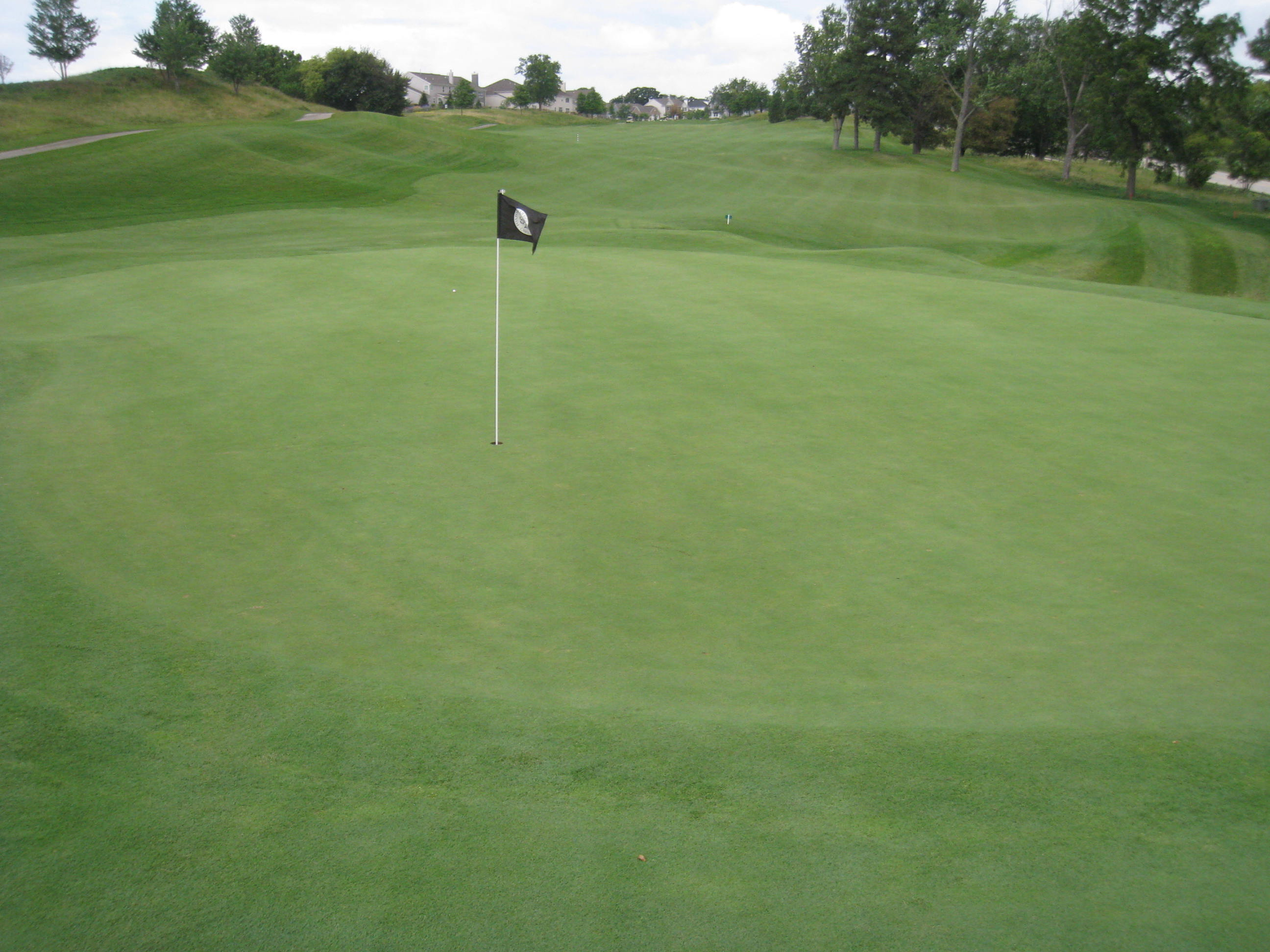 Green